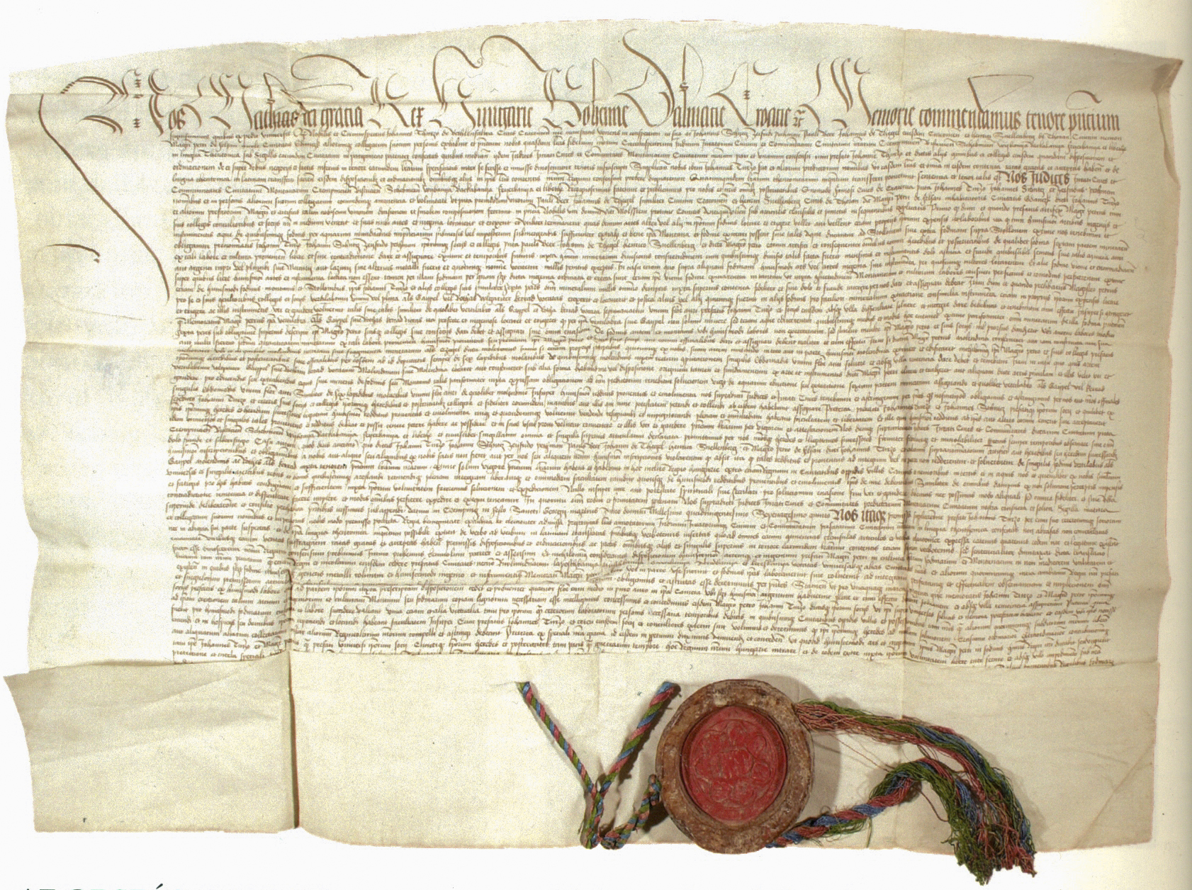 Patent of privileges by Matthias Corvinus for the Thurzó family